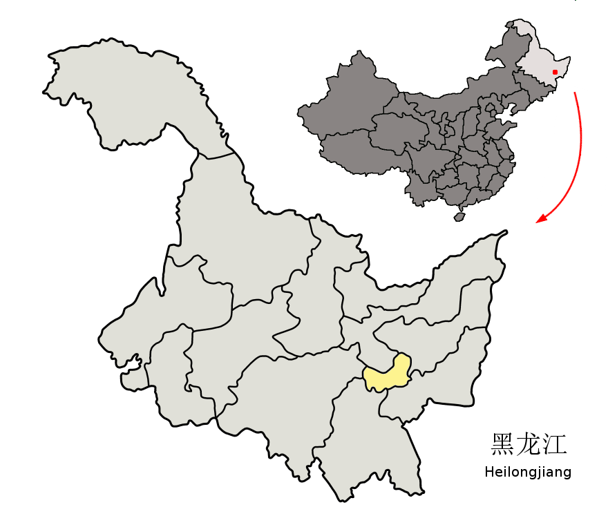 Location of Qitaihe Prefecture (yellow) within Heilongjiang Province of China Map drawn in november 2007 using various sources, mainly : Heilongjiang Province administrative regions GIS data: 1:1M, County level, 1990 Heilongjiang Counties map from